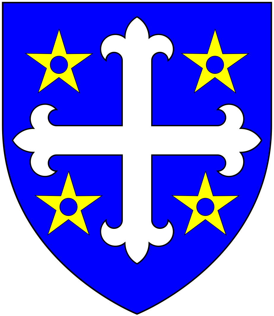 Arms of Helyar of Poundisford, Pitminster, Taunton, Somerset: Azure, a cross flory argent between four mullets pierced or (Source: Burke's Genealogical and Heraldic History of the Landed Gentry, 15th Edition, ed. Pirie-Gordon, H., London, 1937, p.1089)